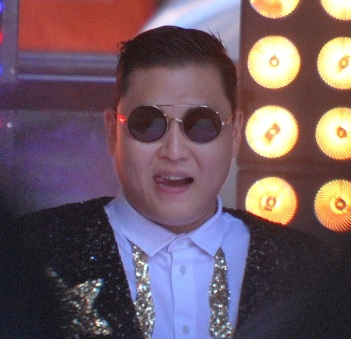 Psy performing Gangnam Style in Sydney for Breakfast TV.